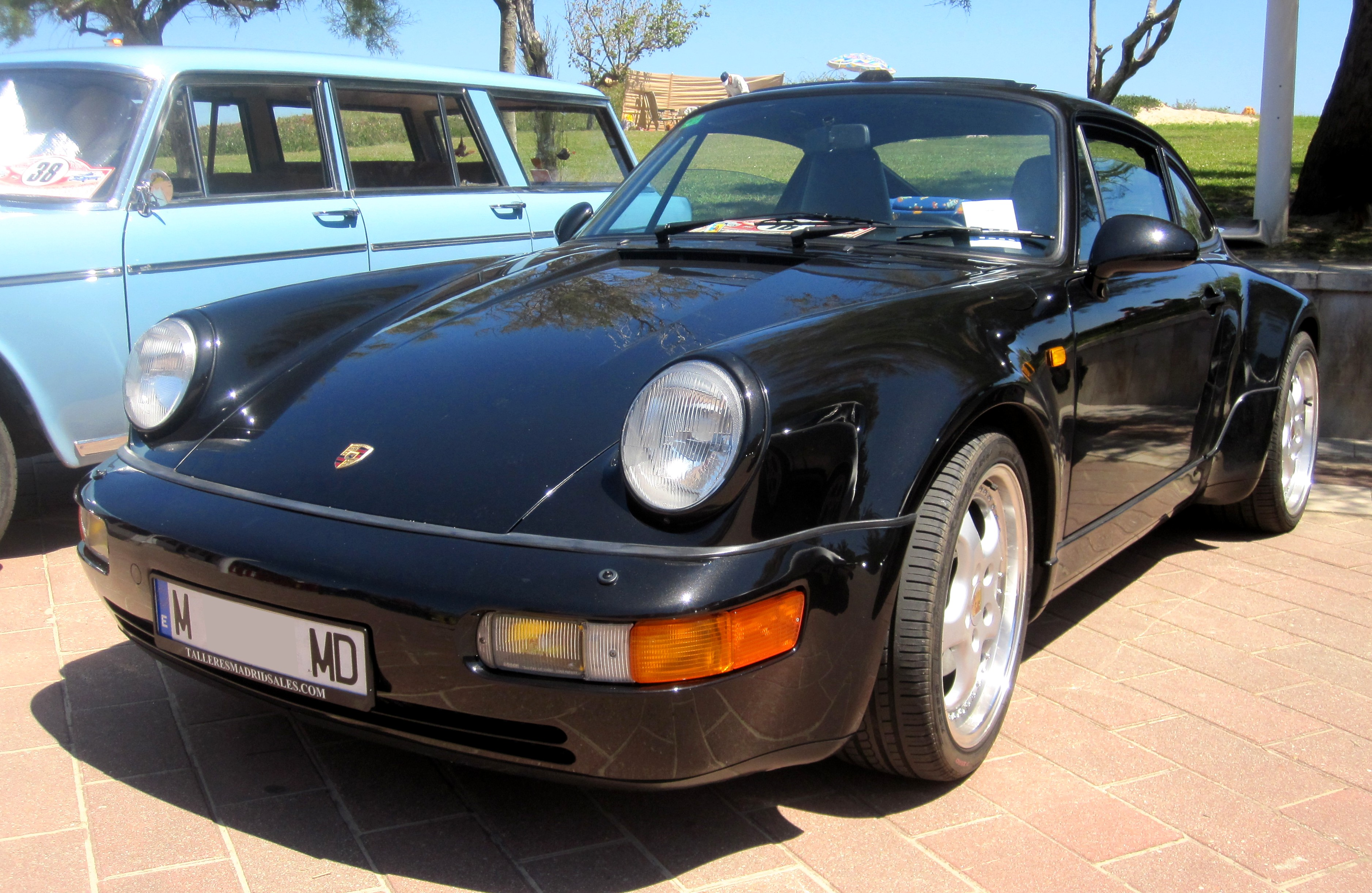 1991 plates from Madrid but seen in Suances (Cantabria).